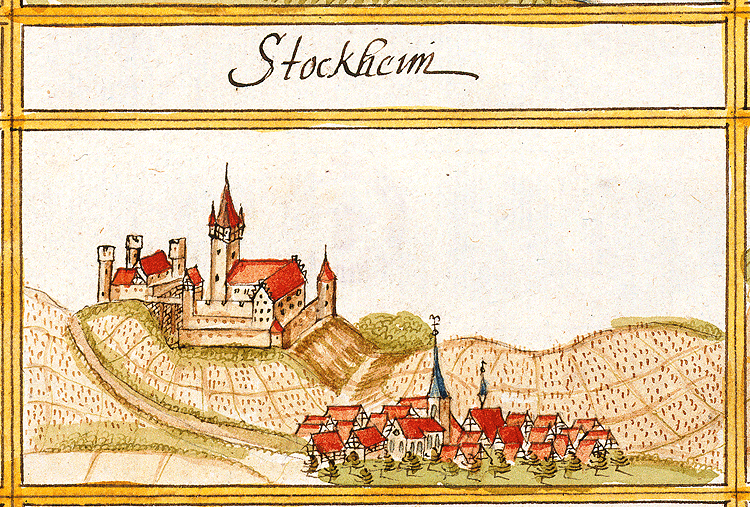 View of Stockheim, Brackenheim, from the forest register books created by Andreas Kieser